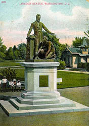 Circa 1900 postcard of the Emancipation Memorial provide by National Park Service. Here captioned simply as the "Lincoln Statue".